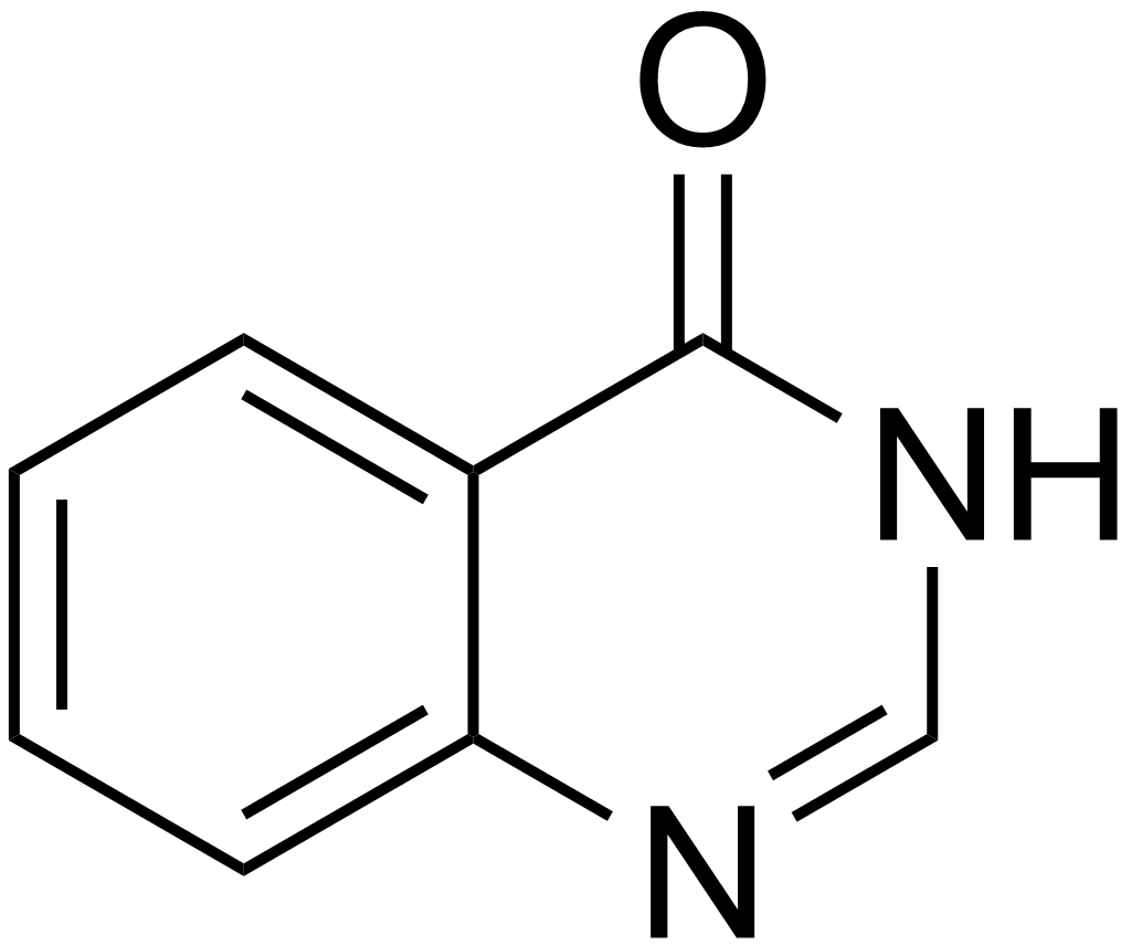 Chemical structure of 4-quinazolinone